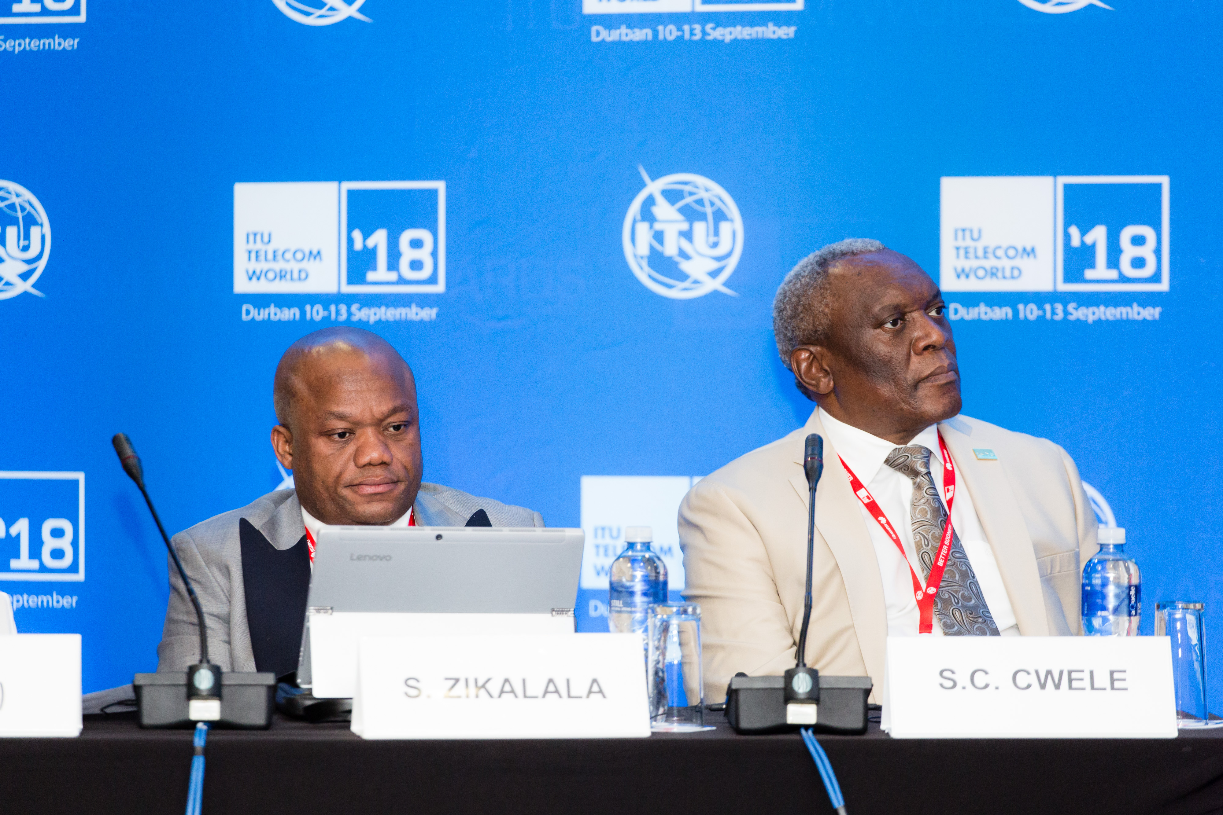 From left to right Mr. Sihle Zikalala Honourable Acting Premier KwaZulu-Natal Provincial Government and H. E. Dr. Siyabonga Cyprian Cwele Minister Ministry of Telecommunications and Postal Services ITU Telecom World 2018 ©ITU/Browne